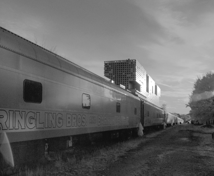 A Ringling Brothers' train idles near MIT in Cambridge, Massachusetts.